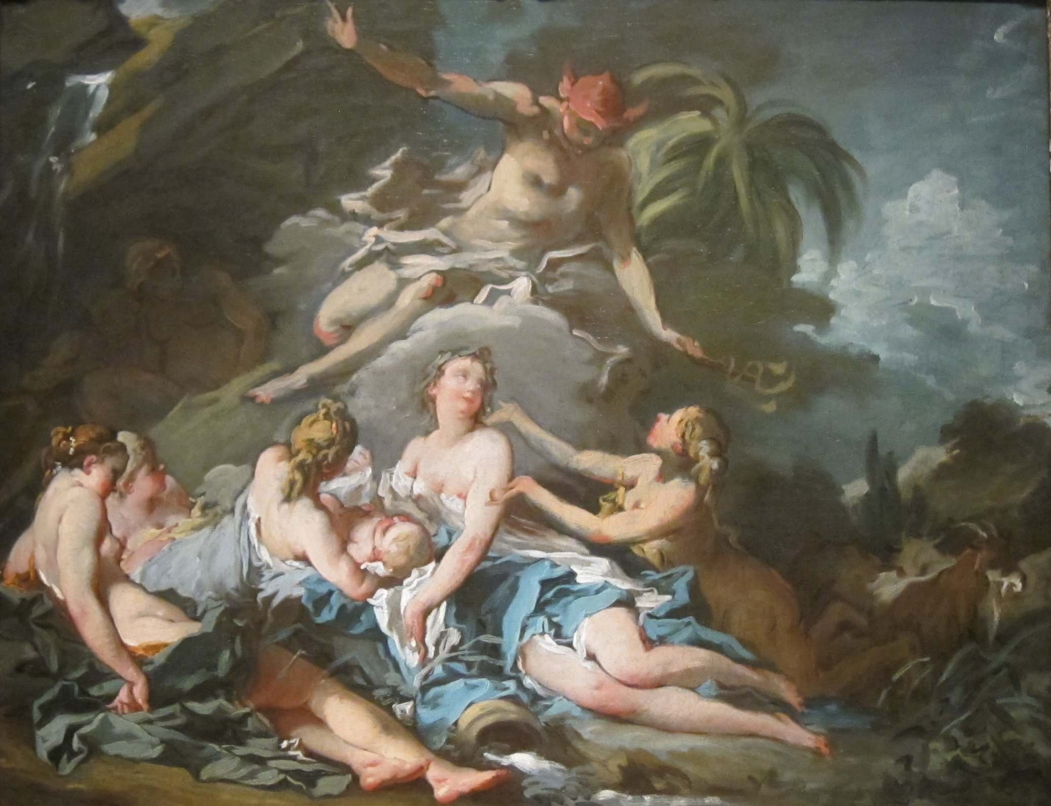 Mercury Entrusting the Infant Bacchus to the Nymphs of Nysa by Boucher